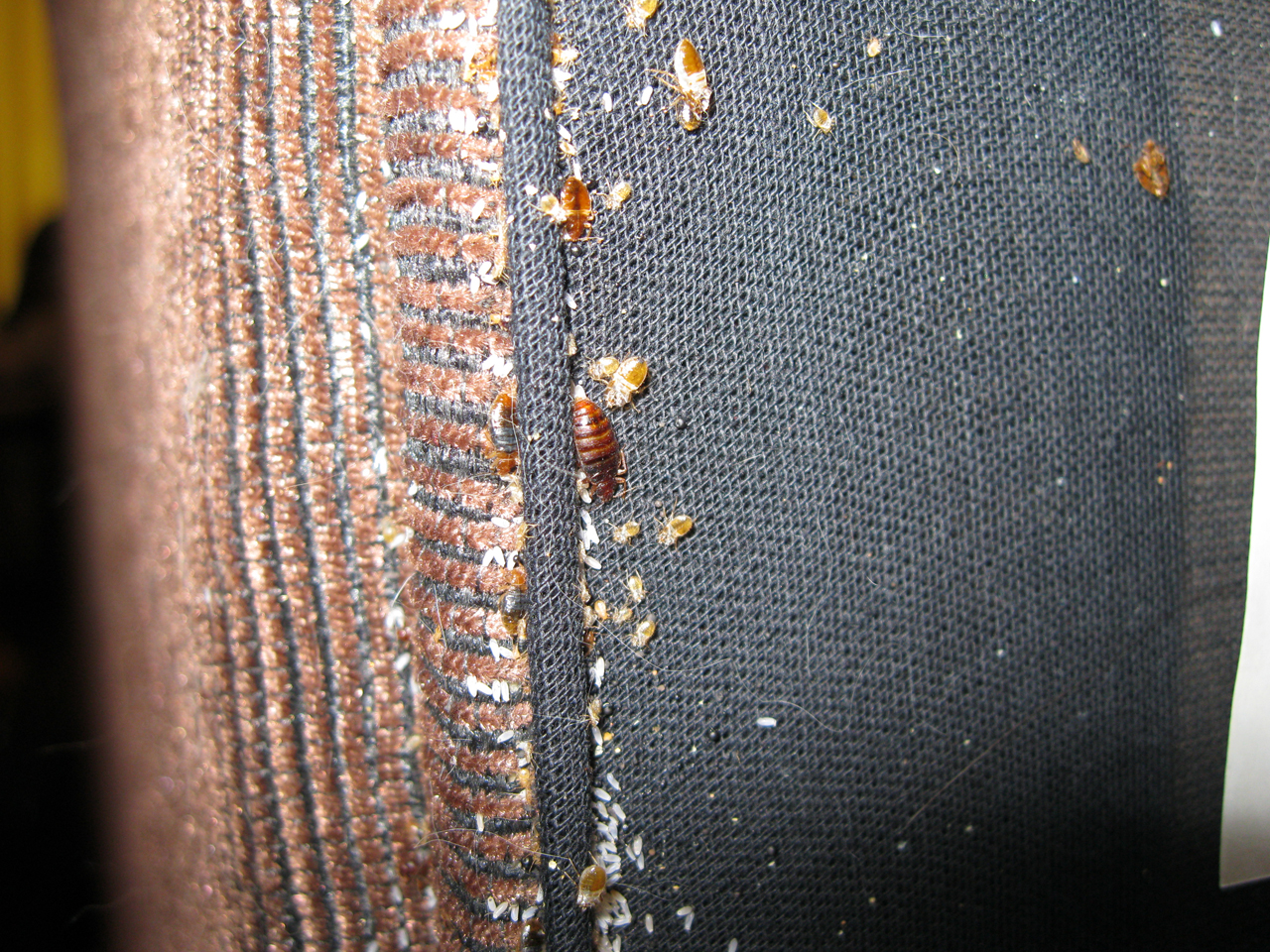 Bedbugs with their eggs locating on the bed.